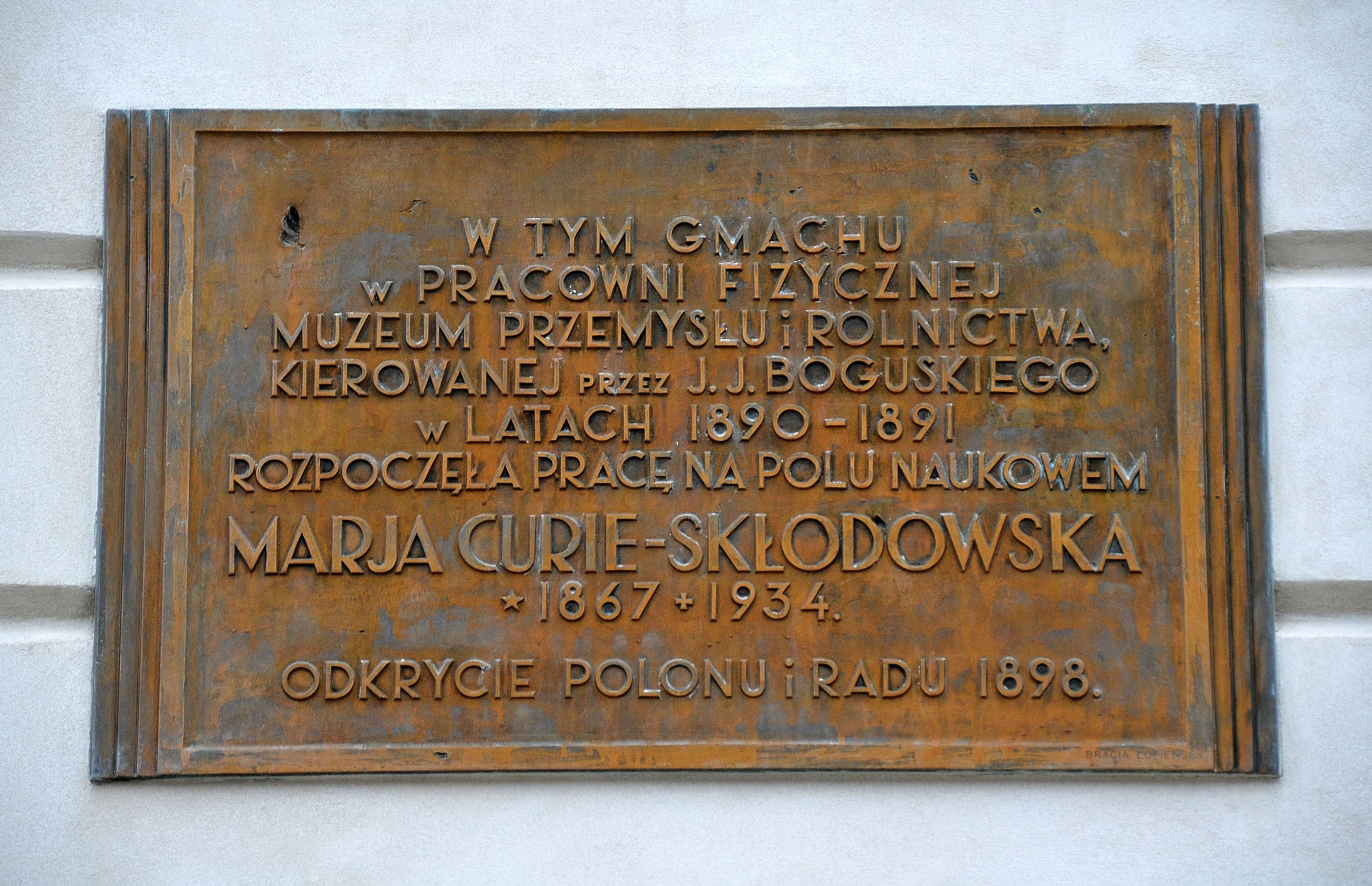 Plaque commemorating Maria Skłodowska-Curie at 66 Krakowskie Przedmieście Street in Warsaw